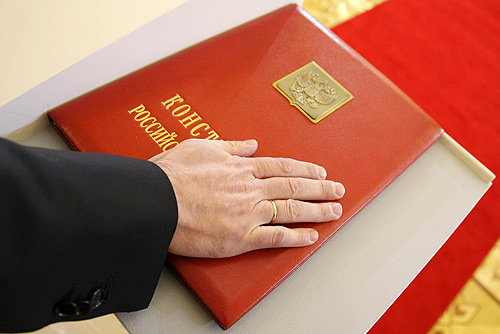 THE KREMLIN, MOSCOW. Dmitry Medvedev assumed the position of President of Russia.